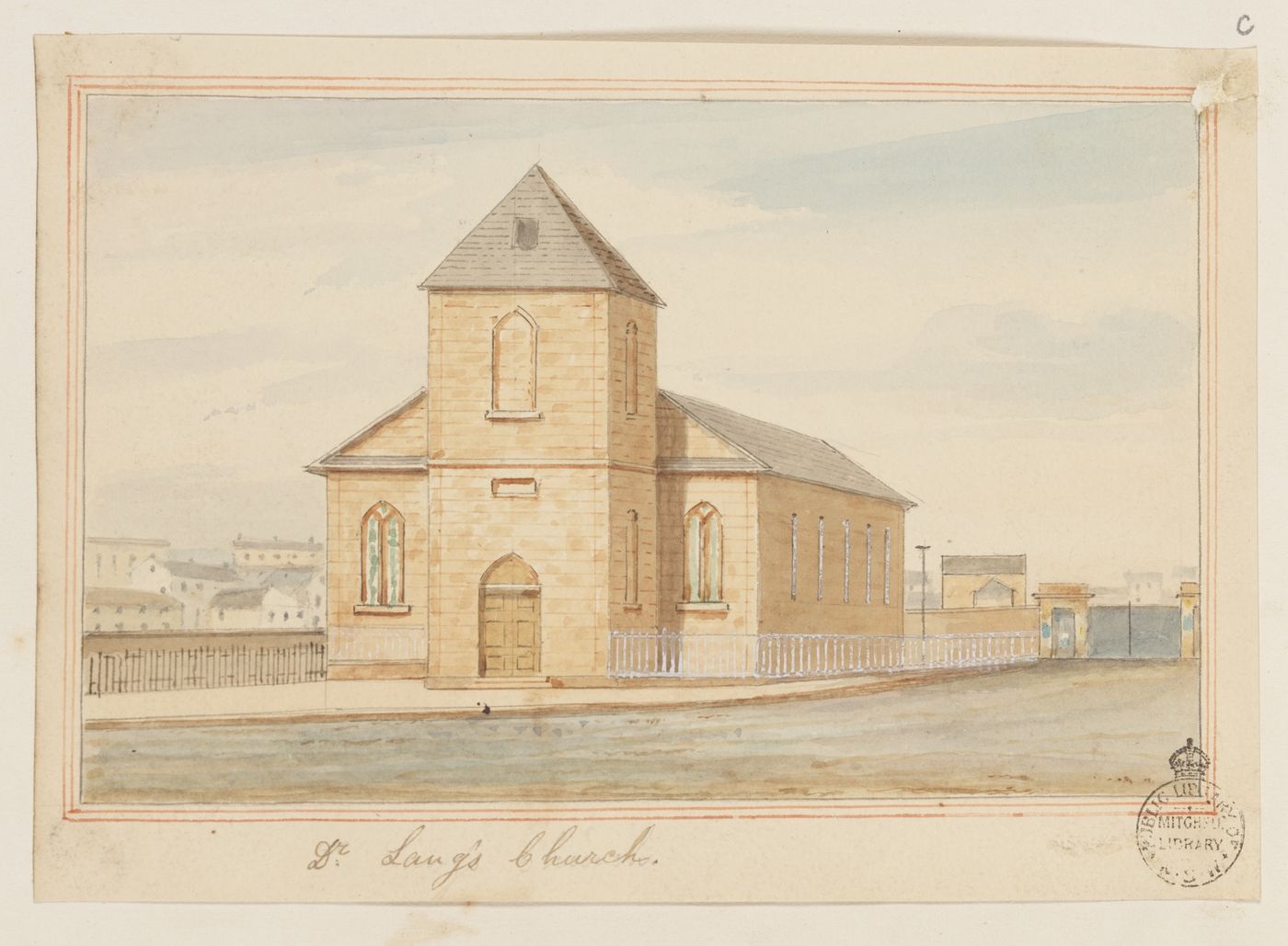 Painting by Frederick Garling of Scots Church, Sydney, New South Wales, 1840s